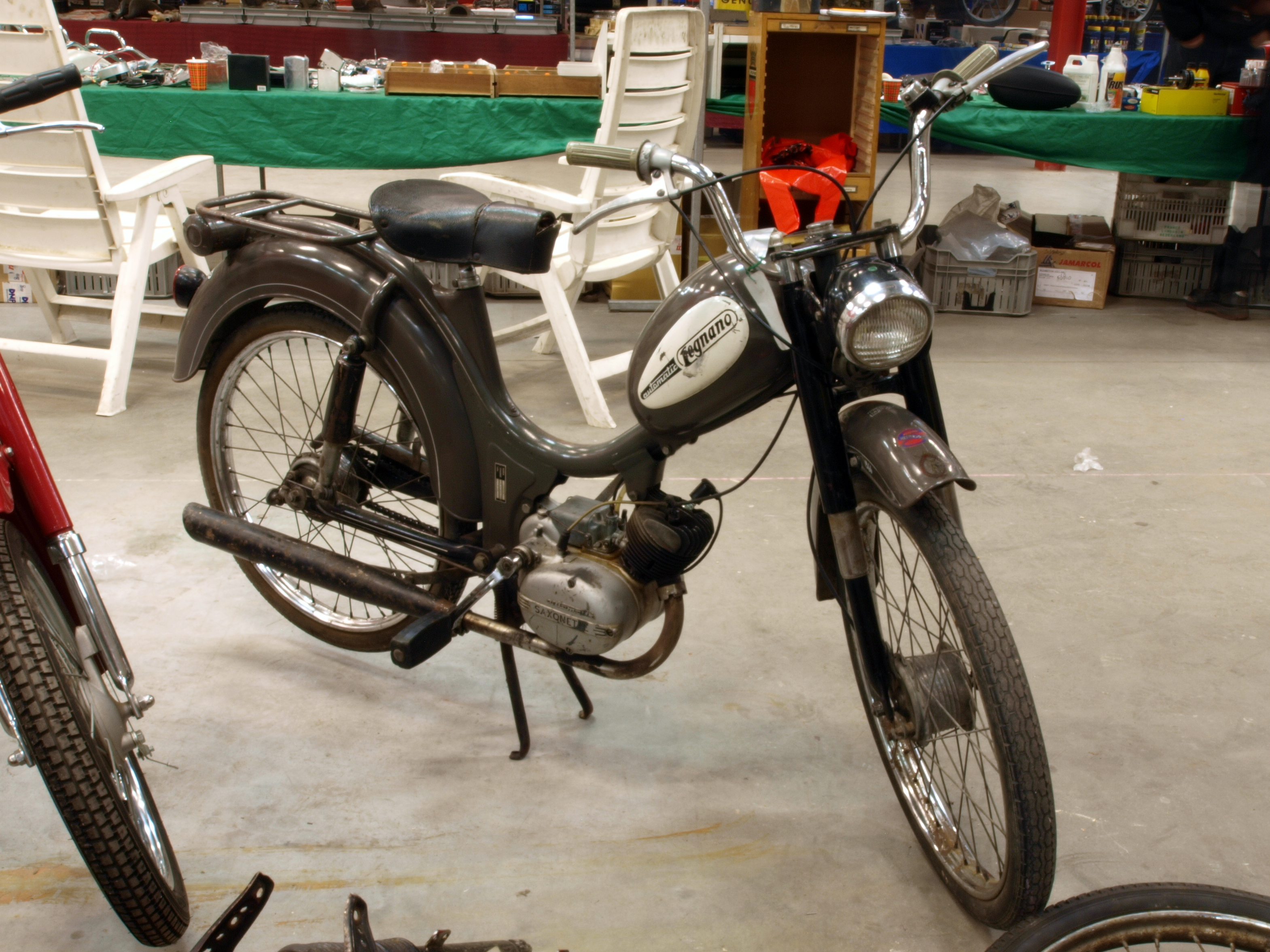 Photographed at the Bromfietsshow Bollenstreek 2010, The Netherlands.